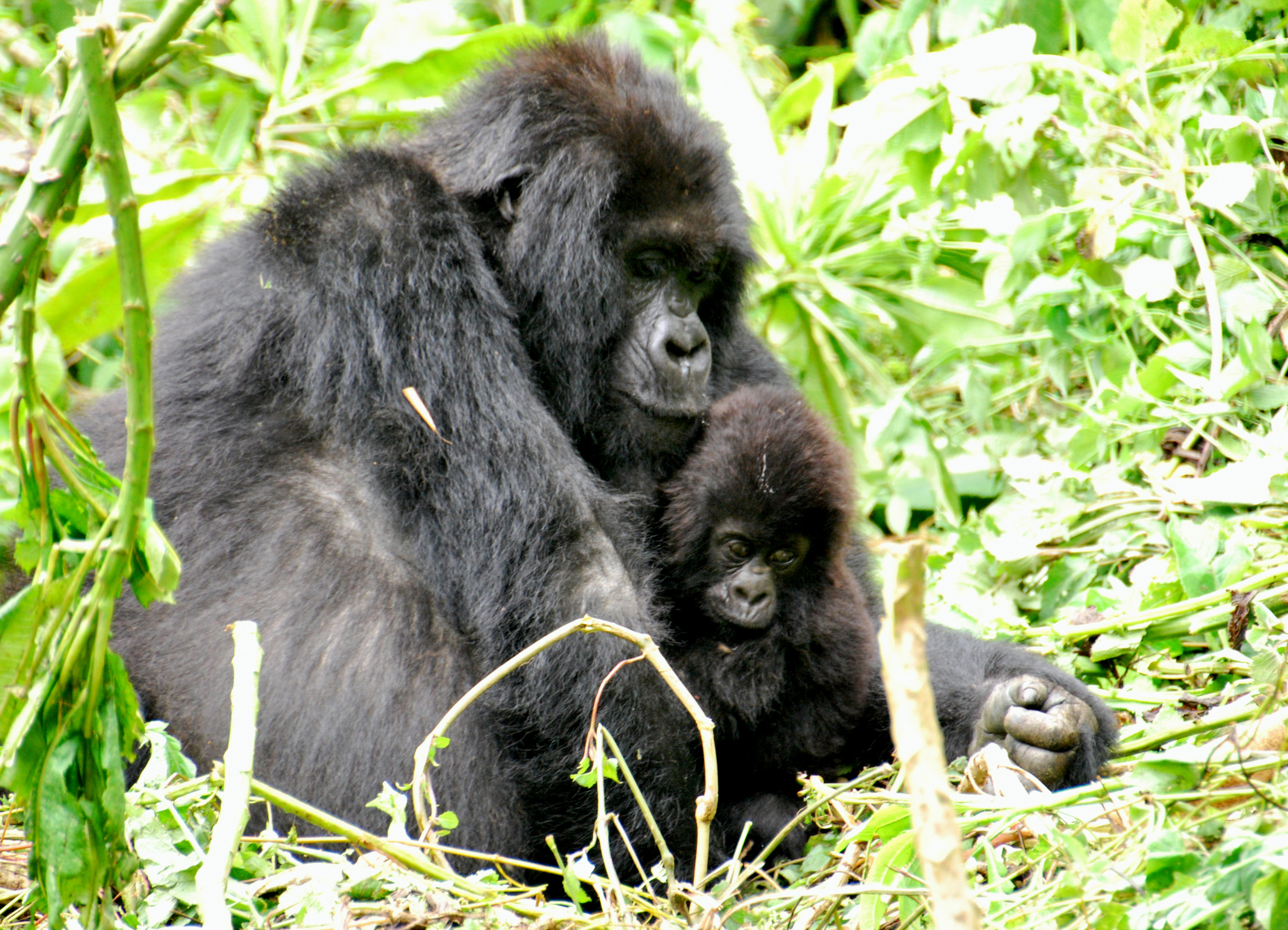 Sabyinyo group, Volcanoes National Park, Rwanda.